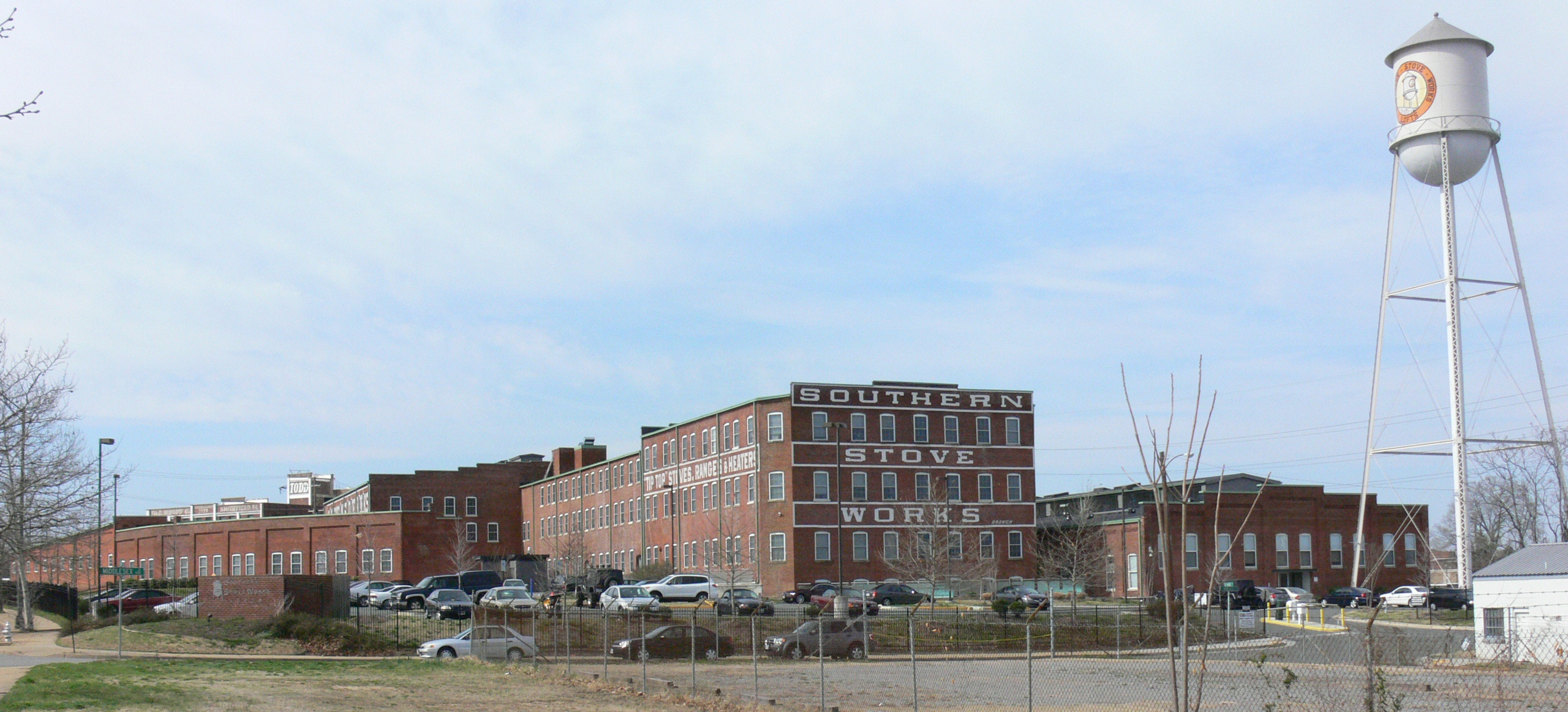 The renovated Southern Stove Works in Richmond, Virginia